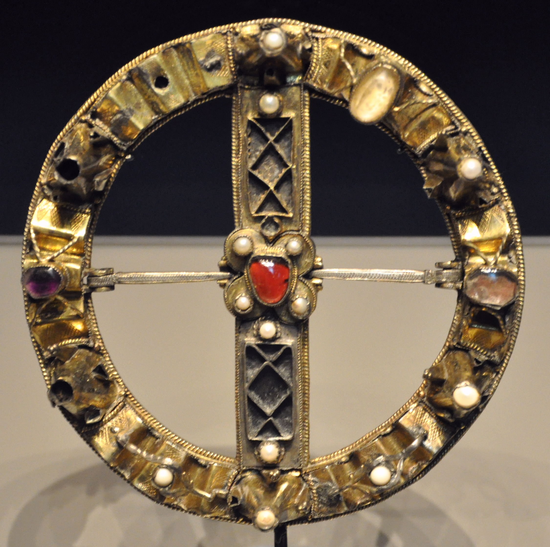 British Museum reference1897,0526.1Detailed descriptionGlenlyon Brooch; silver-gilt; set with crystals, amethysts and pearls; reverse inscribed with names of the Three Magi. Scotland, c. 1500-1530SizeDiameter: 22.0 cmLocationRoom 40